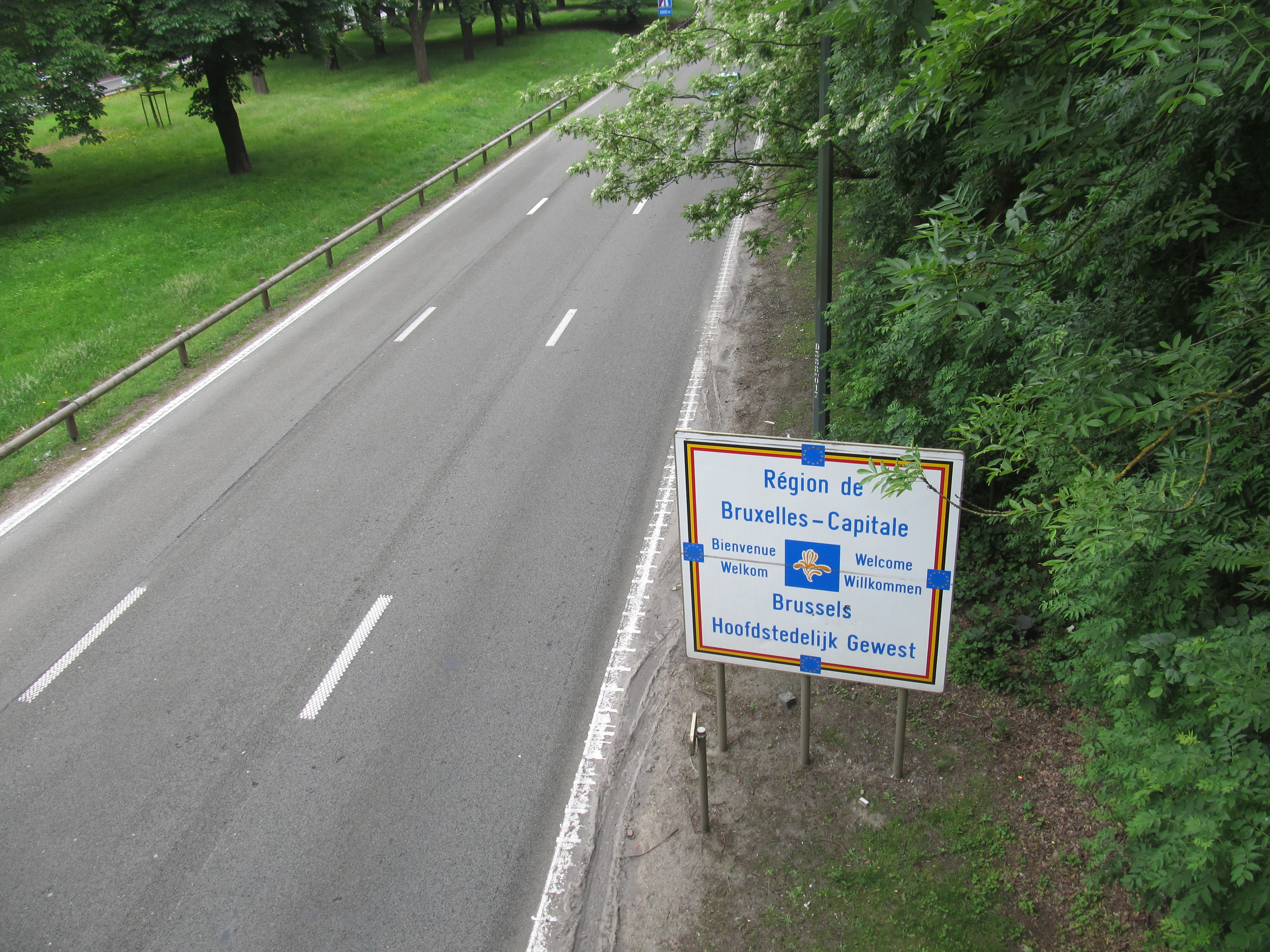 Brussels-Capital Region city limit sign near the Flemish municipality of Strombeek-Bever.